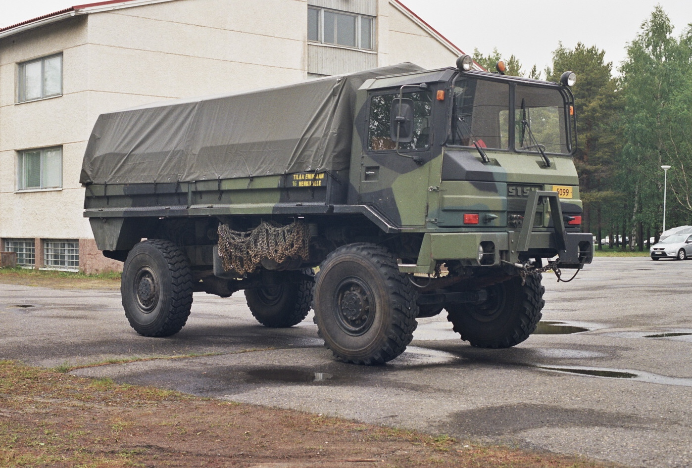 A Finnish Sisu SA-150 military truck (nicknamed "Masi" in Finland) in Hiukkavaara, Oulu, Finland.